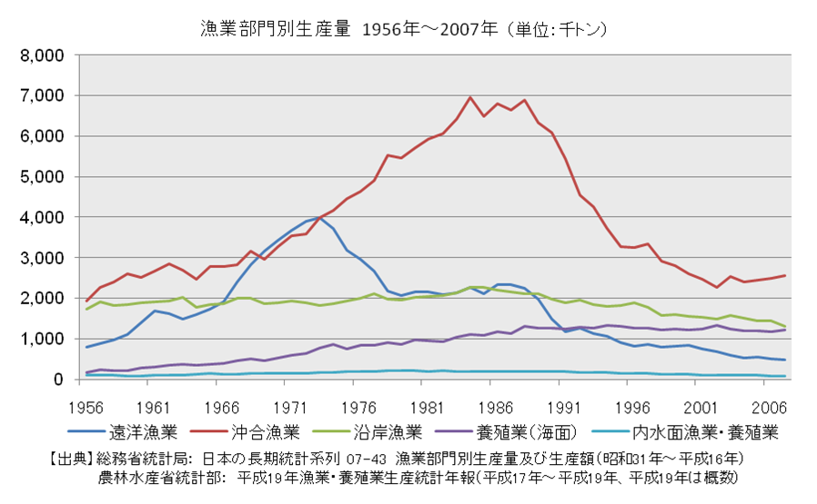 Quantity_of_Catches_by_Sector_of_Fisheries_in_Japan (1956 - 2007)